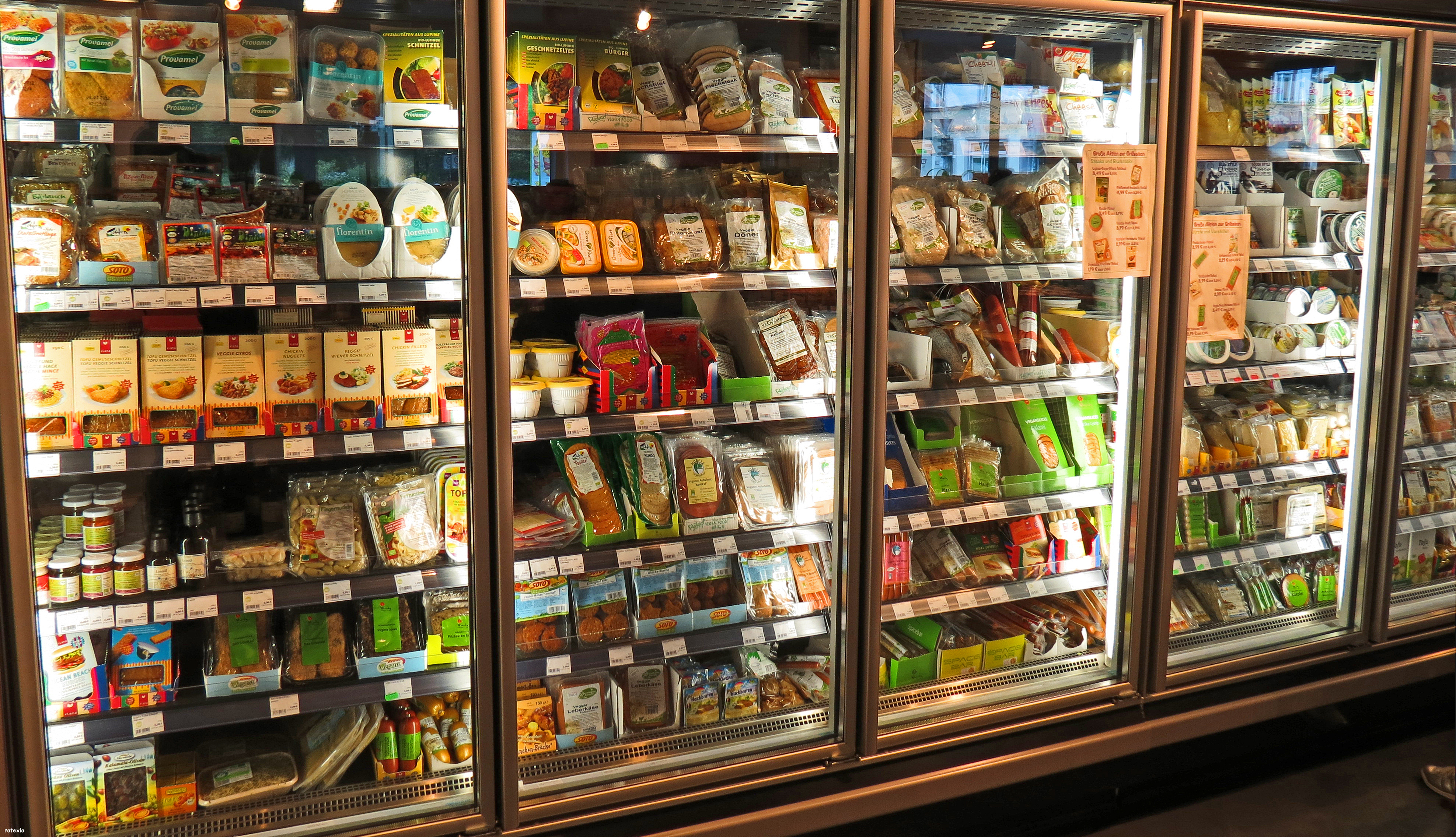 Inside Veganz, a vegan supermarket, Schivelbeiner Straße 34, Berlin. Nearest U- and S-Bahn station = Schönhauser Allee.